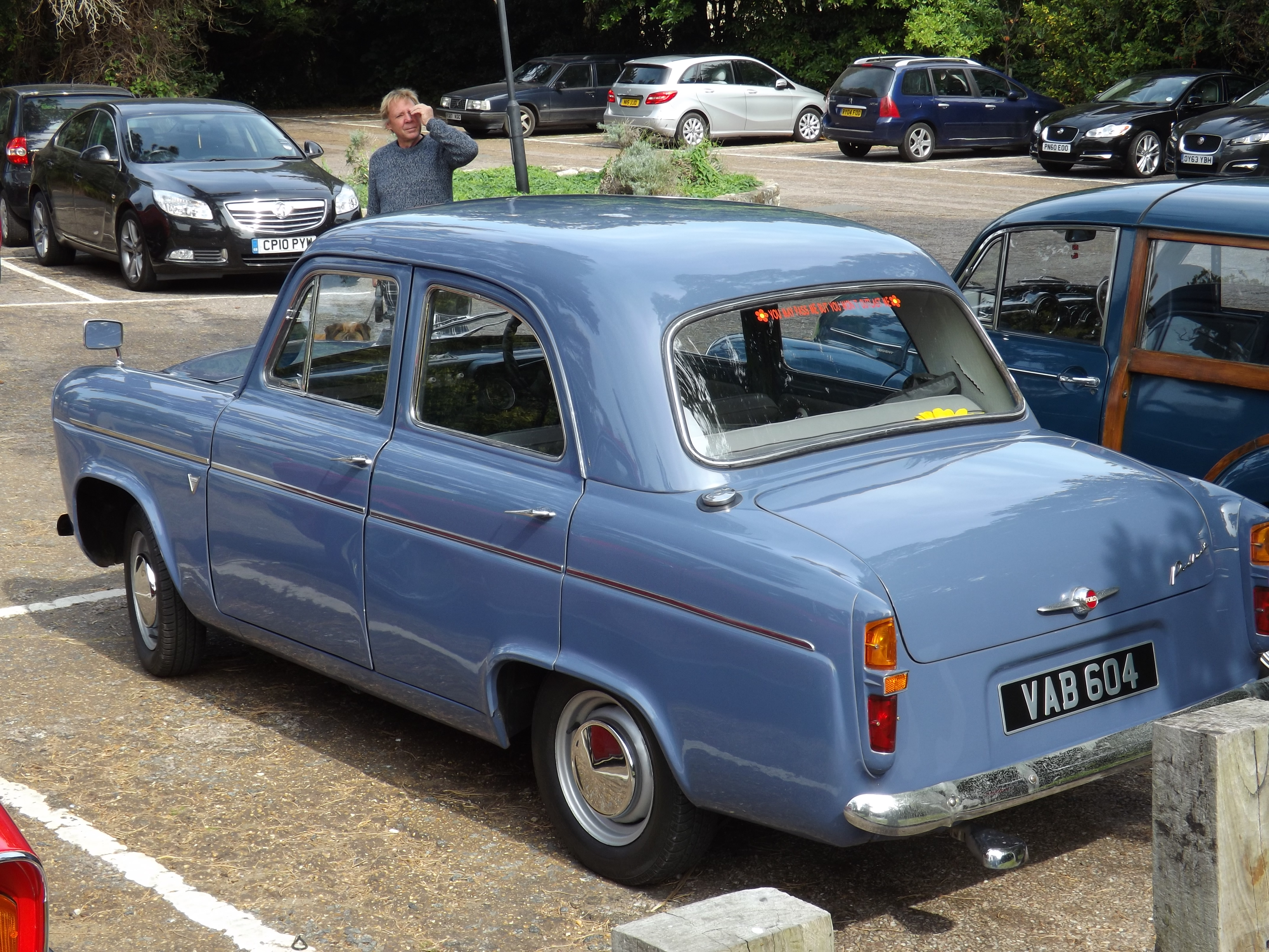 Ford Prefect 100E c.1955-6